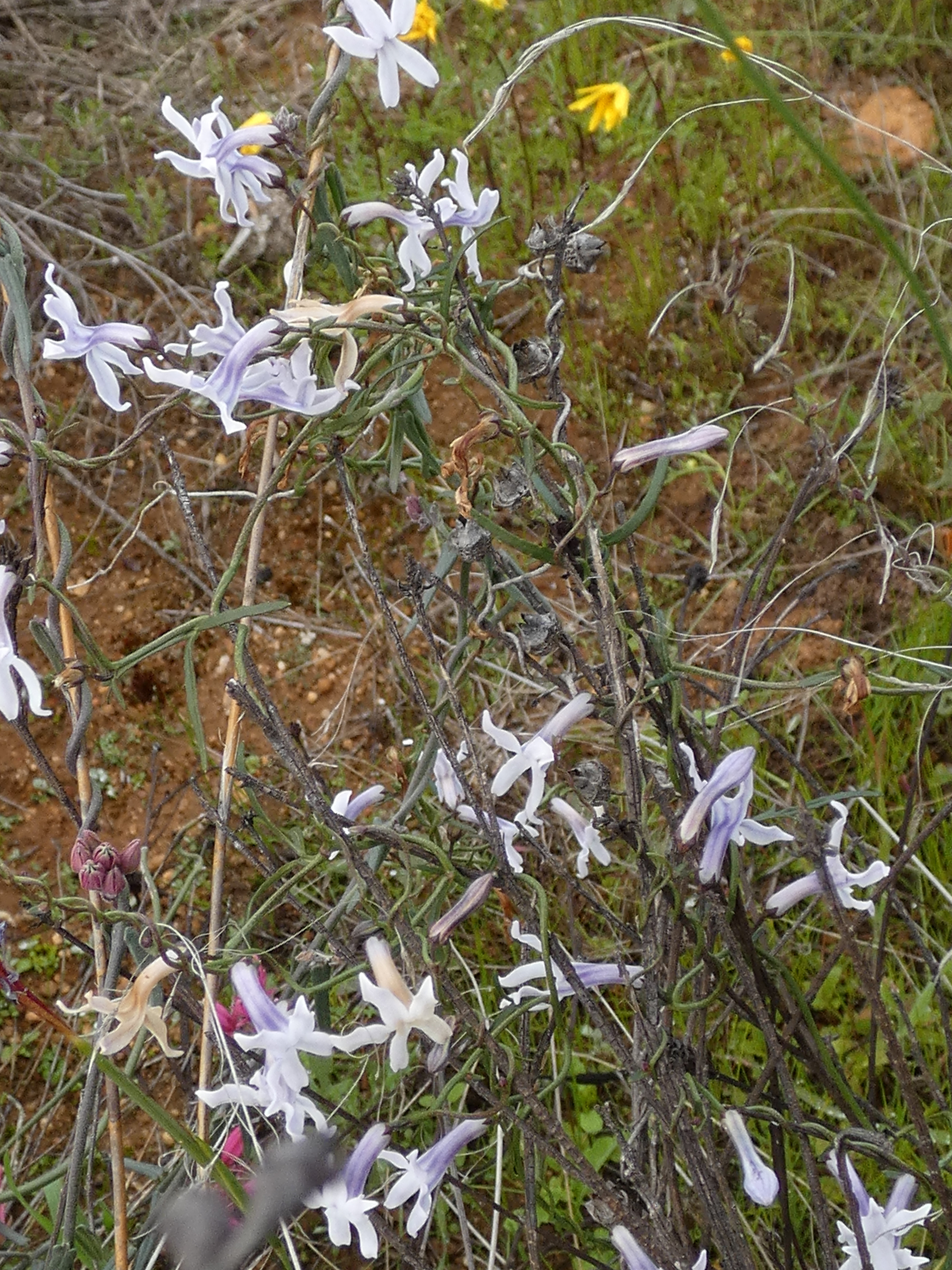 Cyphia volubilis, photographed on the Gifberg